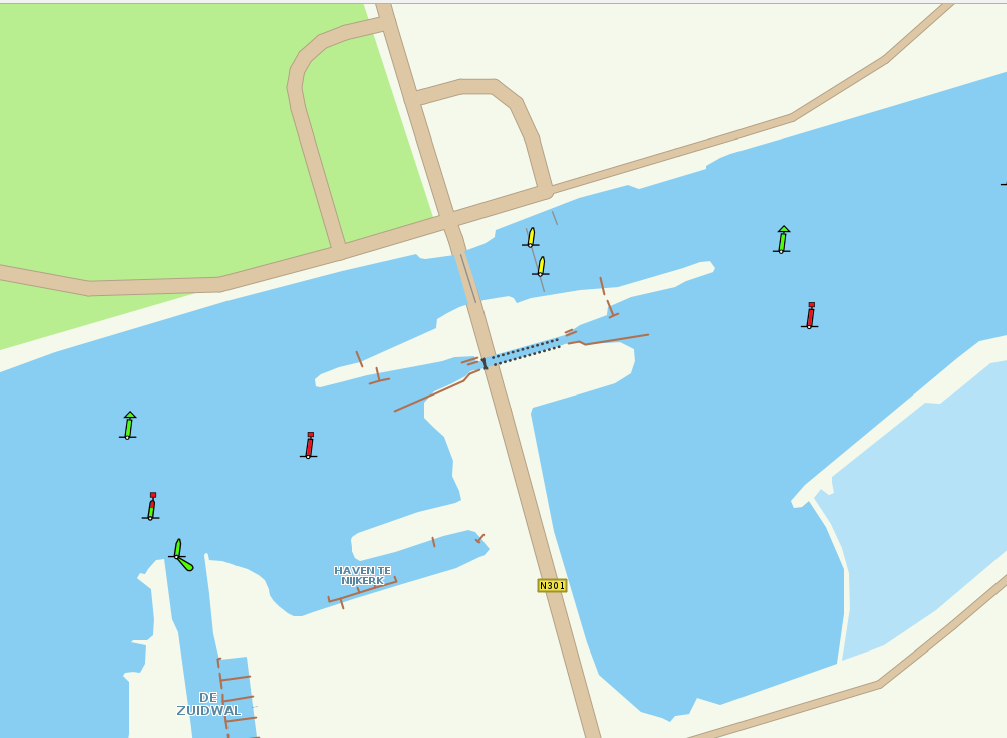 Nijkerkersluis depicted on a marine map